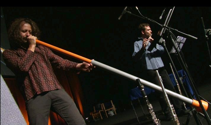 Alberto Sozzi kaj Francesco Spiga from the music group Rêverie, during their concert at the World Esperanto Congress in Copenhagen, on the 28th of July 2011